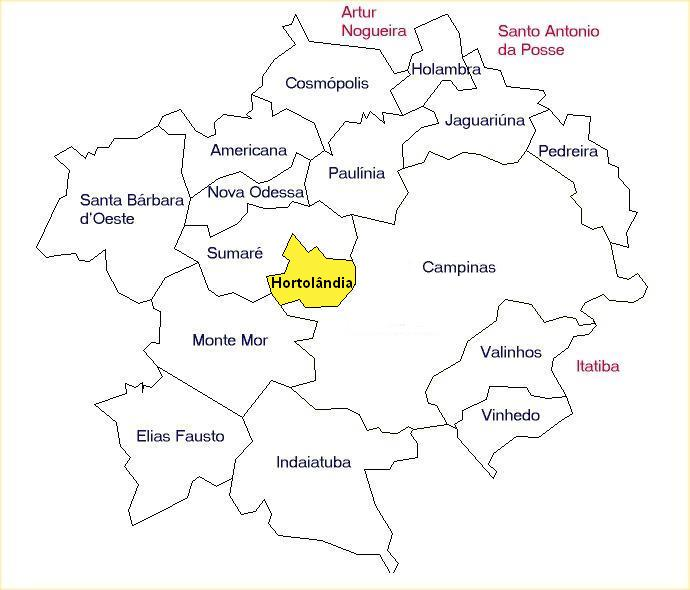 Political map of the micro-region of Campinas, state of São Paulo, Brazil. Names of municipalities in blue belong to the Administrative Micro-Region of Campinas. Names in red also belong to the Metropolitan Area of Campinas.